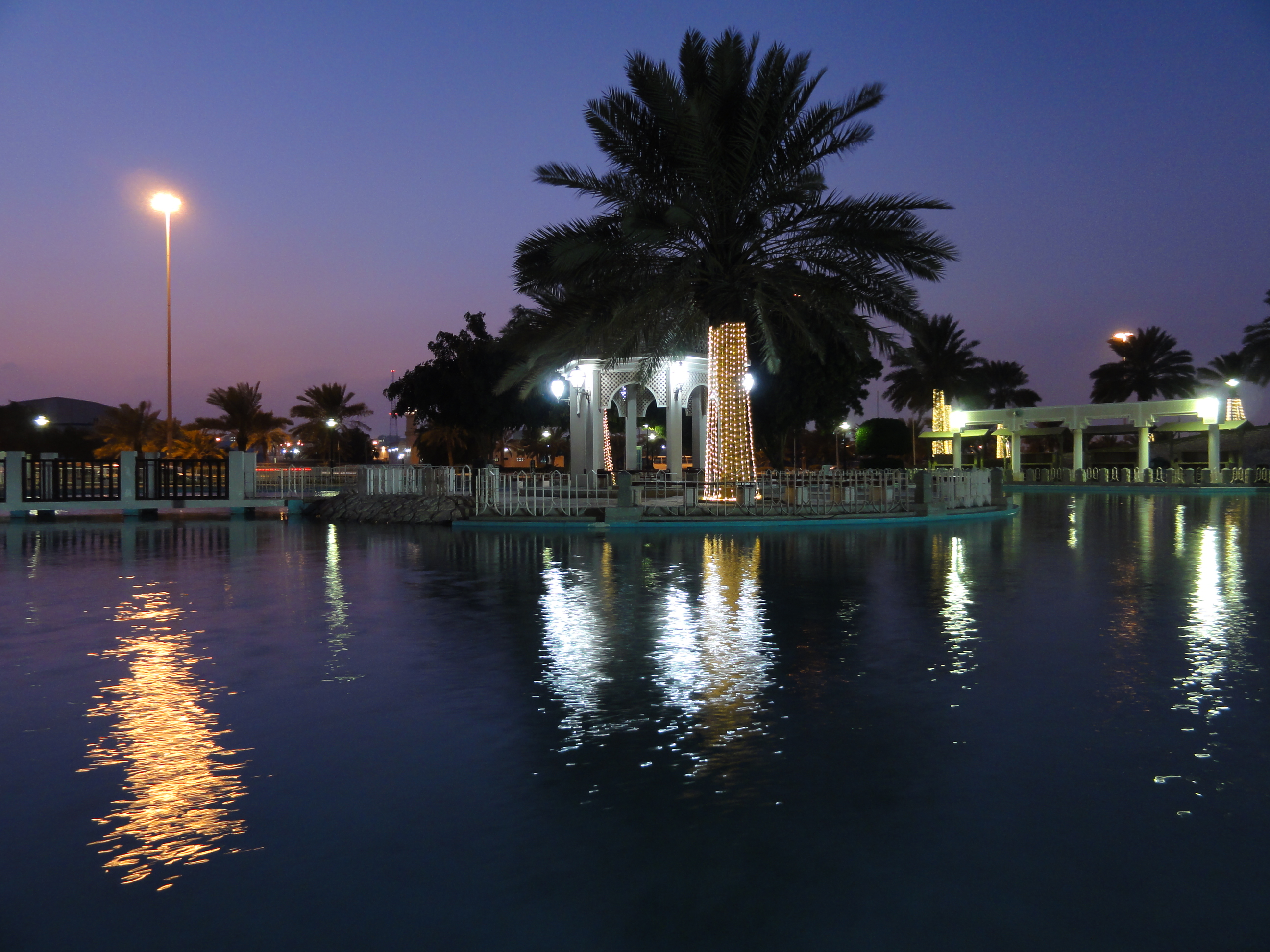 This is one of the many parks with lush green lawns!!!